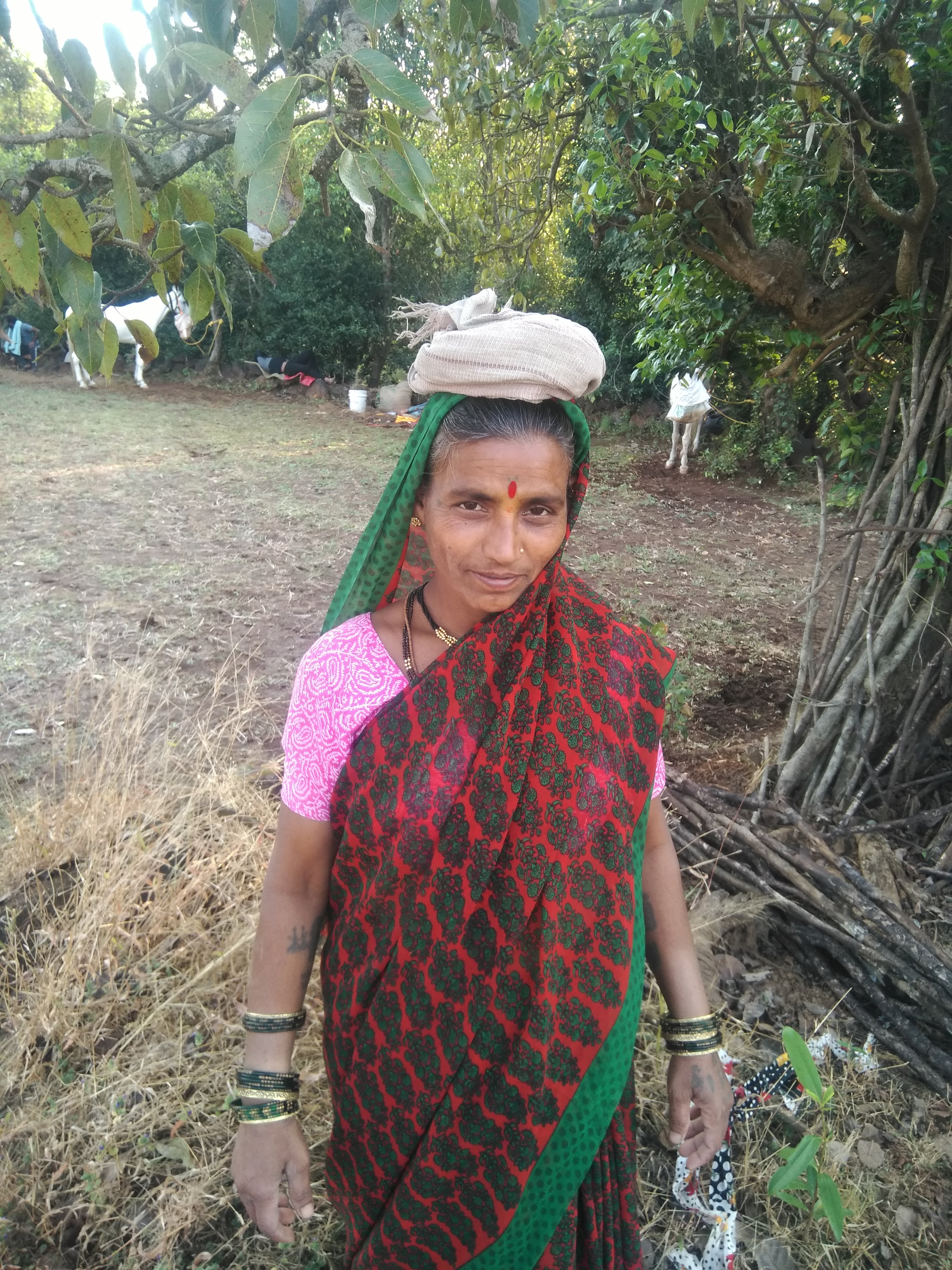 'Chumbal' on the head of the woman